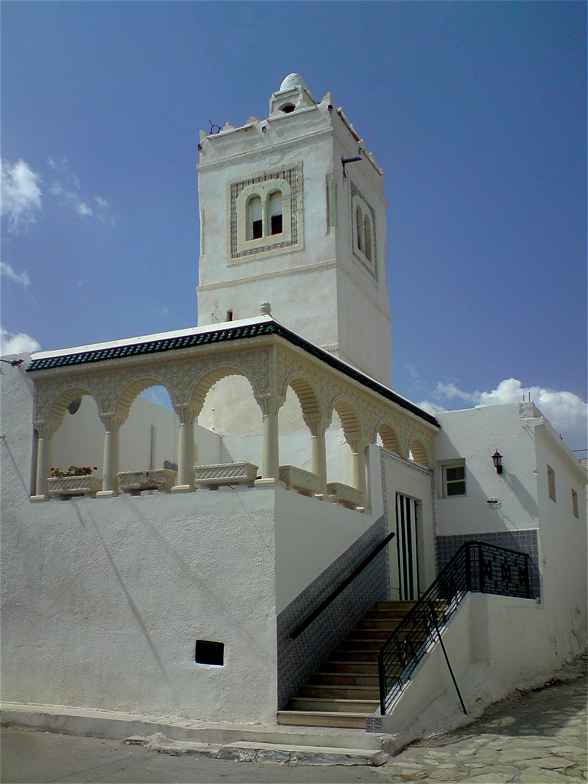 The minaret of the Great mosque of Sayada built in 1750